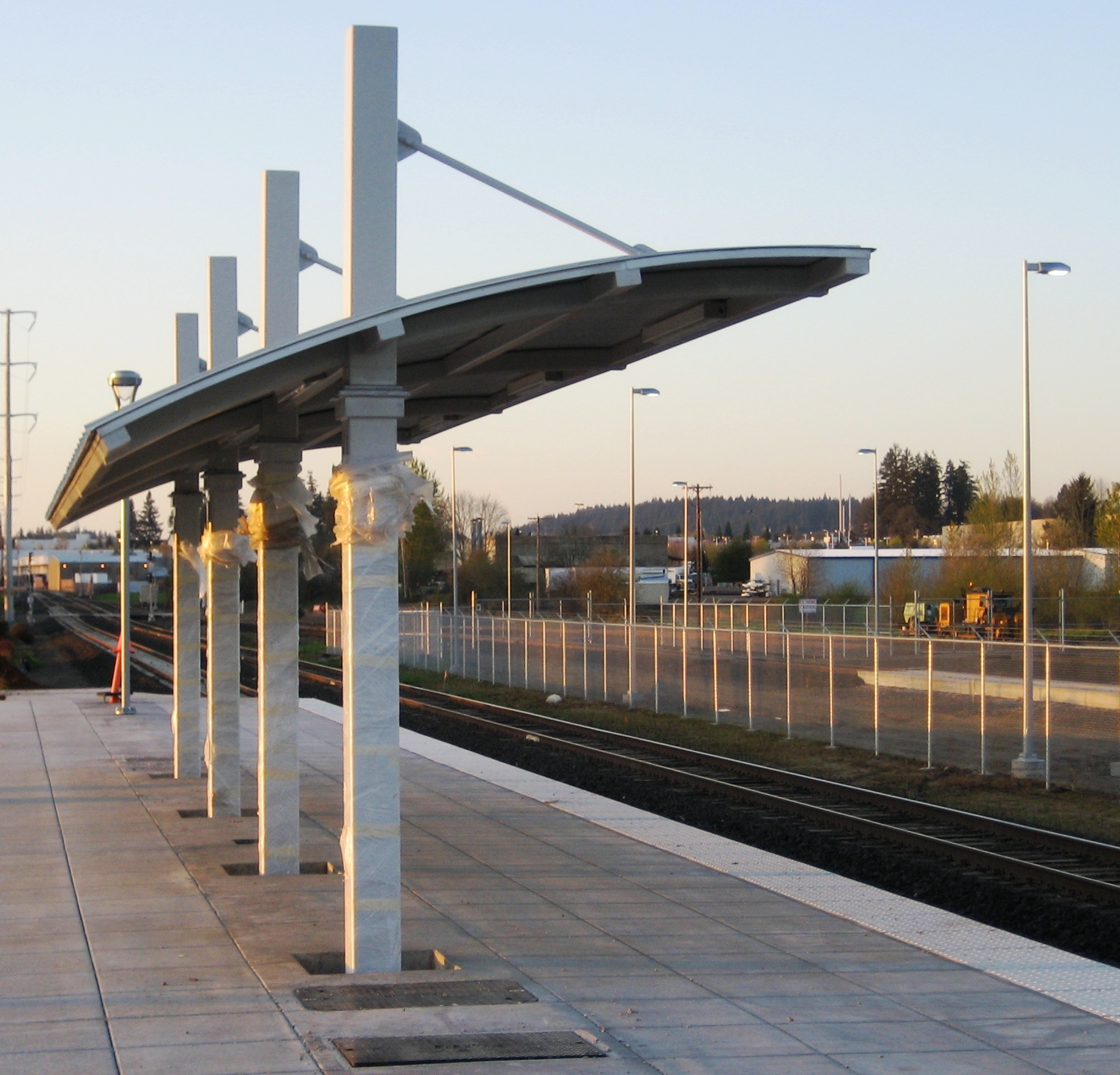 WES in Wilsonville, Oregon, platform shelter at the still-under-construction station